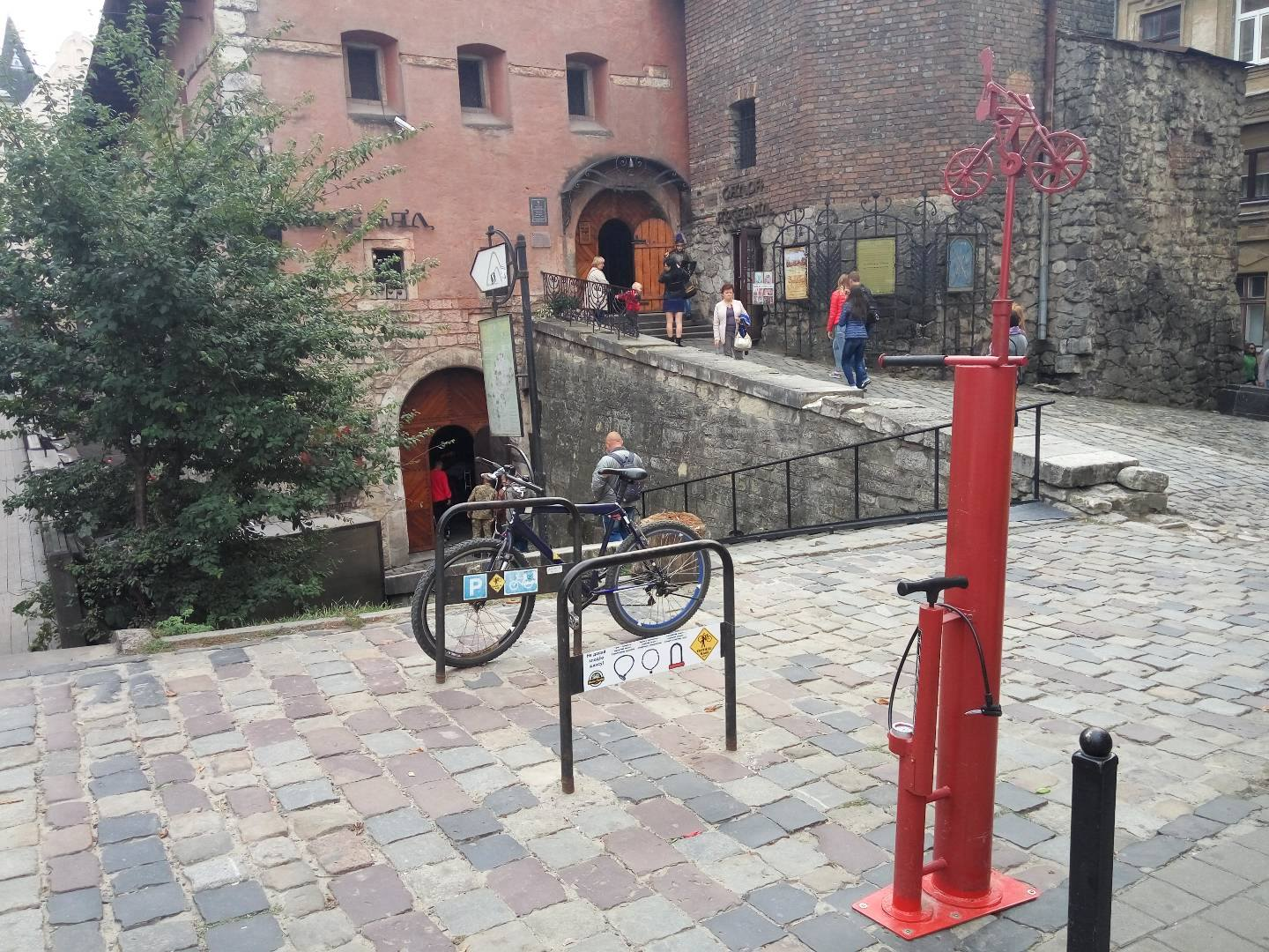 Bike Repair Tools in Lviv